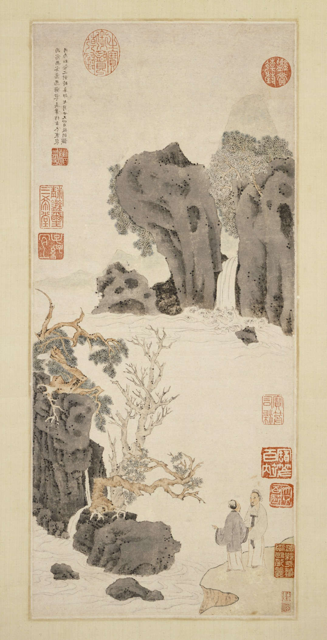 China, Chinese, Ming dynasty, dated 1531 Paintings Hanging scroll, ink and color on paper The Ernest Larson Blanck Memorial Collection (55.67.1) Chinese Art